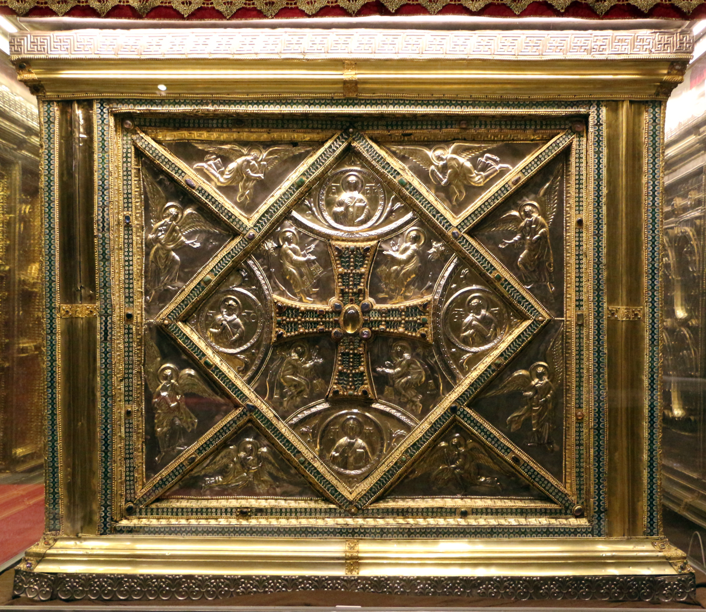 Sant'Ambrogio Altar